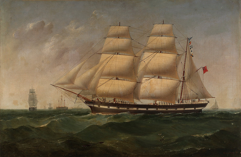 The barque of Rajah of Sarawak.